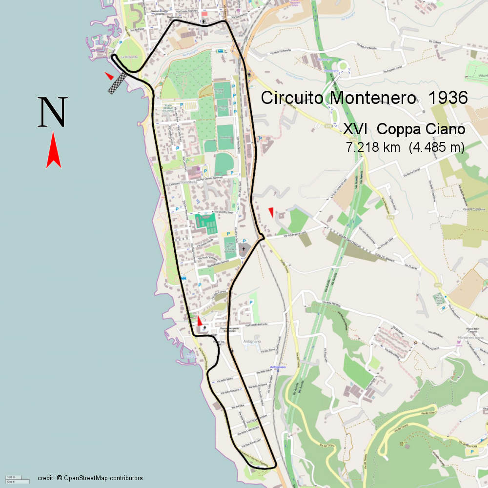 Street Map: Circuito Montenero 1936